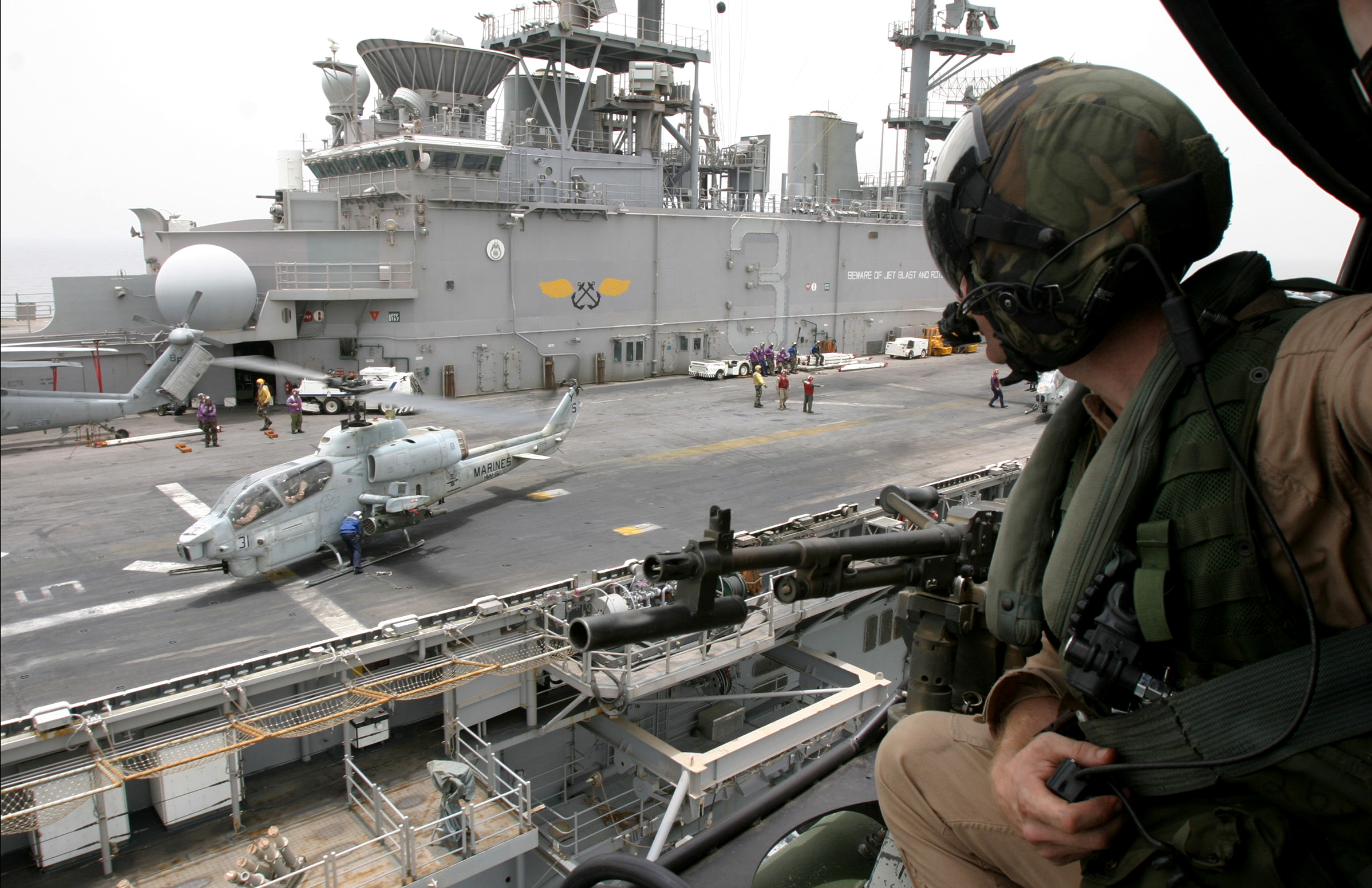 Staff Sergeant Johnathan E. Farnour, a UH-1N Huey crew chief for Marine Medium Helicopter Squadron 162 (Reinforced), 26th Marine Expeditionary Unit (Special Operations Capable) prepares for landing aboard the amphibious assault ship USS Kearsarge (LHD 3) following a close-air-support training mission August 10 at Godoria Range in Djibouti. The MEU conducted the exercise as the Kearsarge Expeditionary Strike Group rounded the Combined Joint Task Force - Horn of Africa area of responsibility en-route to the Red Sea. The training focused on close air support and forward air control tactics and procedures. (USMC photo by Gunnery Sergeant Mark E. Bradley) (Released)